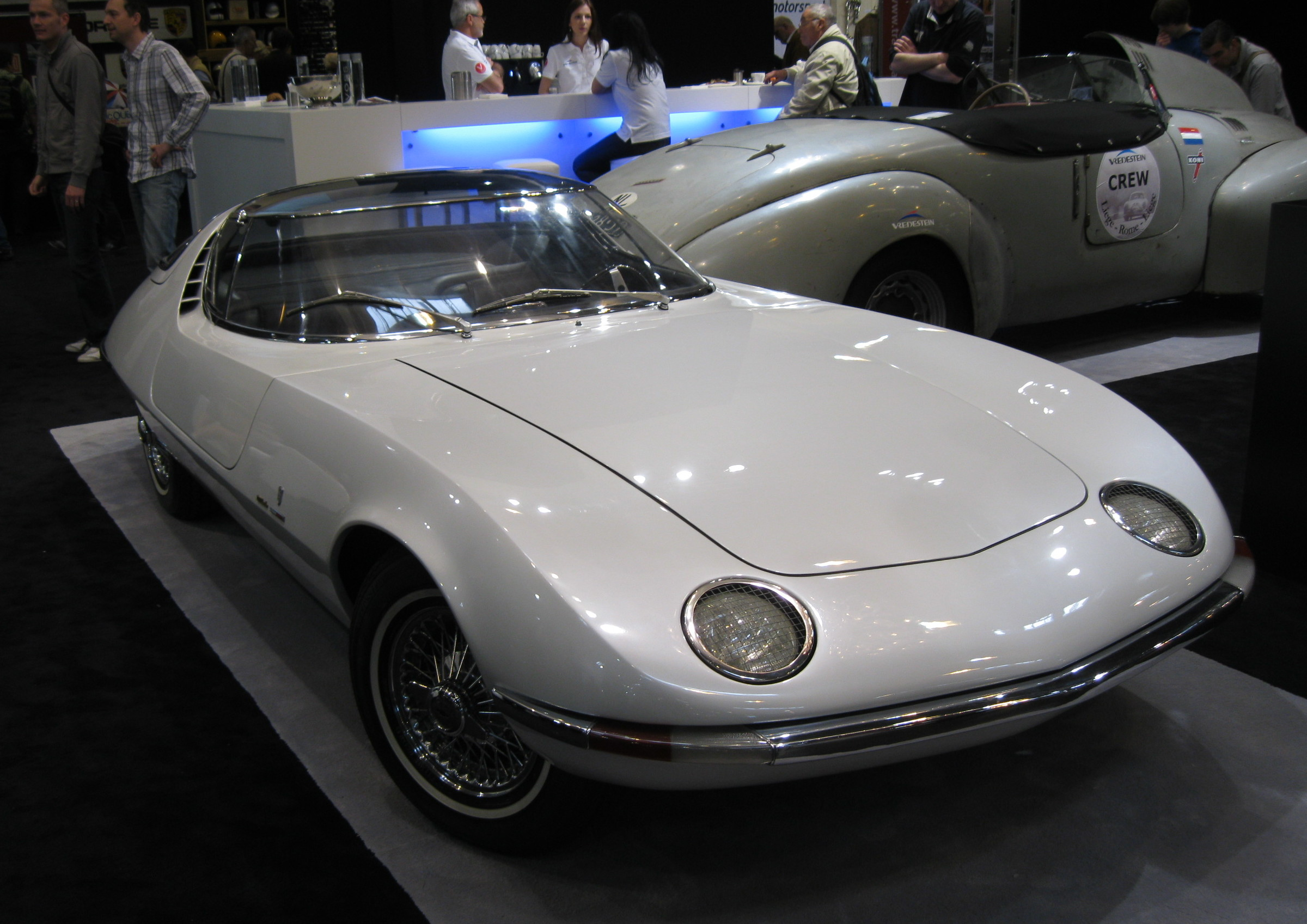 Totally unique Bertone design study on Corvair underpinnings, spotted at Techno Classica Essen in March 2012.